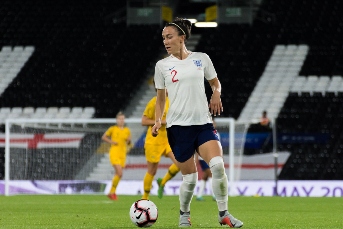 Lucy Bronze vs Australia on 9 October 2018